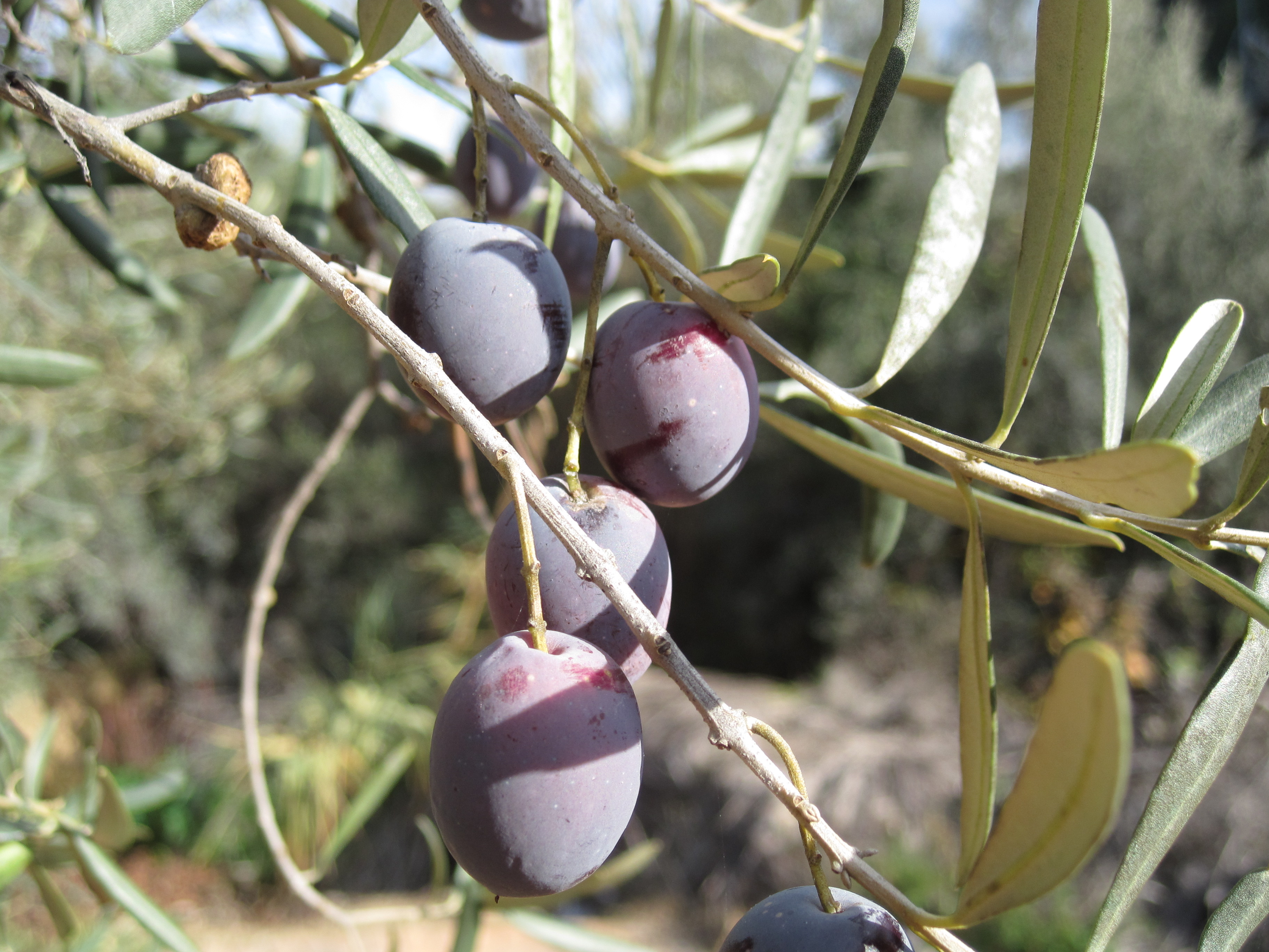 Olea europaea (olives on tree), Coín, Spain